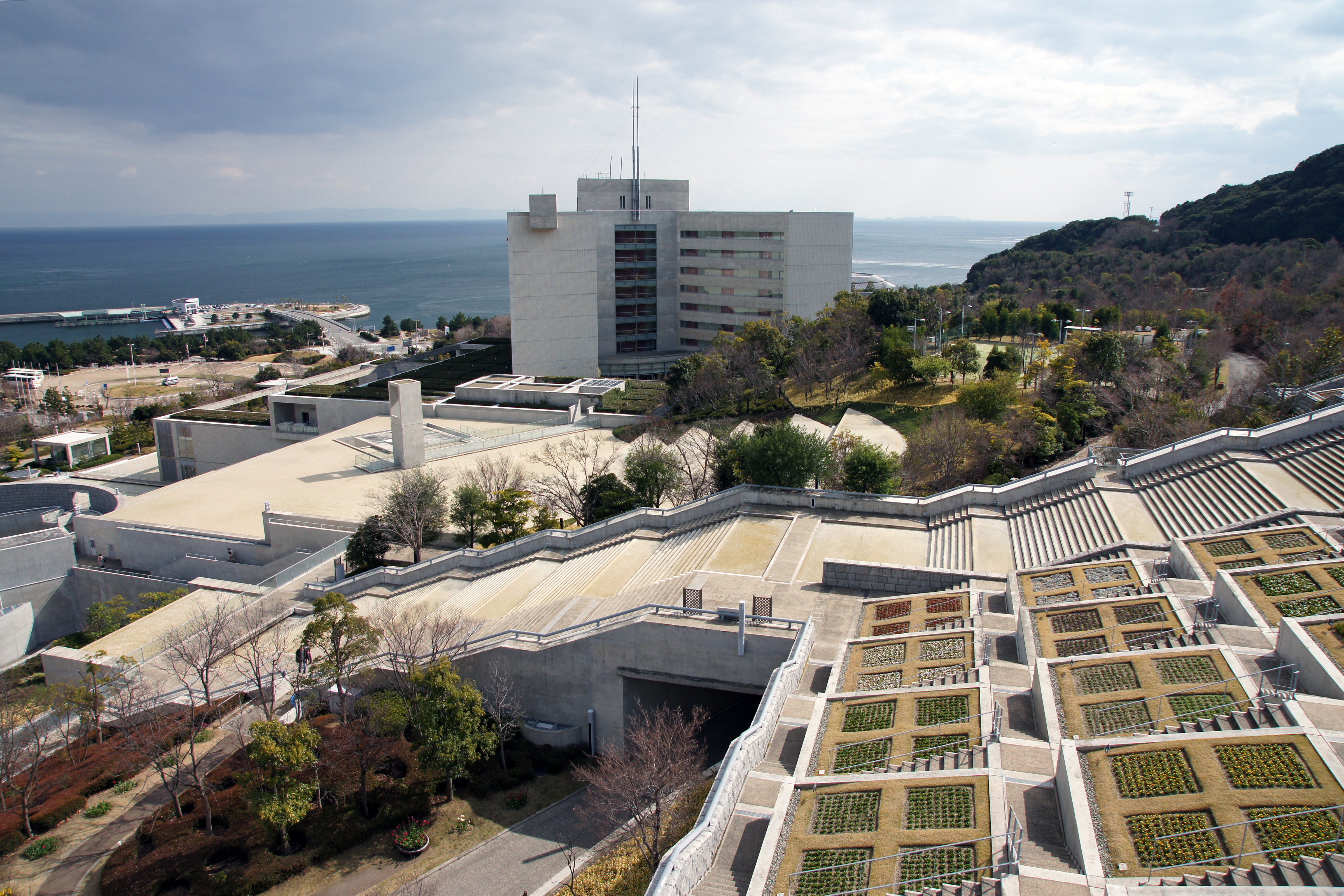 Awaji Yumebutai in Awaji, Hyogo prefecture, Japan